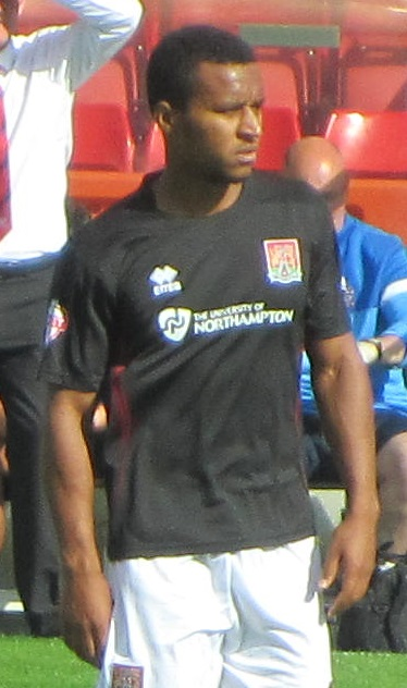 Joe Widdowson.